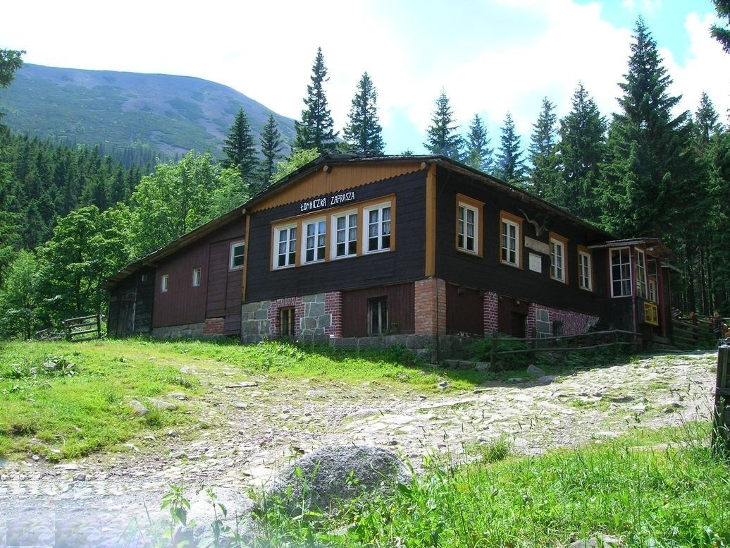 górskie schronisko turystyczne w Karkonoszach położone nad Łomniczką na terenie Karkonoskiego Parku Narodowego w województwie dolnośląskim. Widok od strony północno-zachodniej.